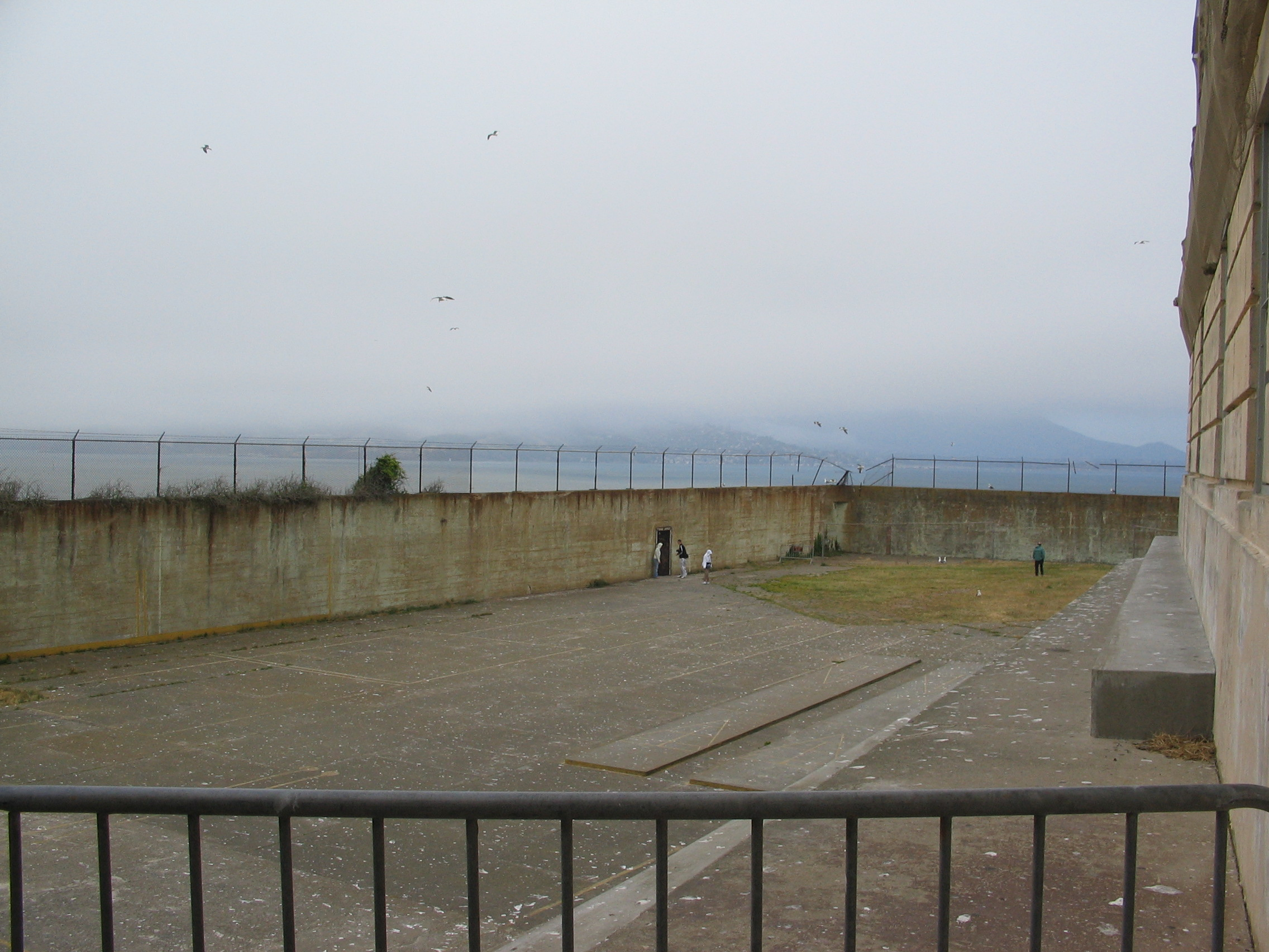 The former recreation yard for prisoners on Alcatraz Island